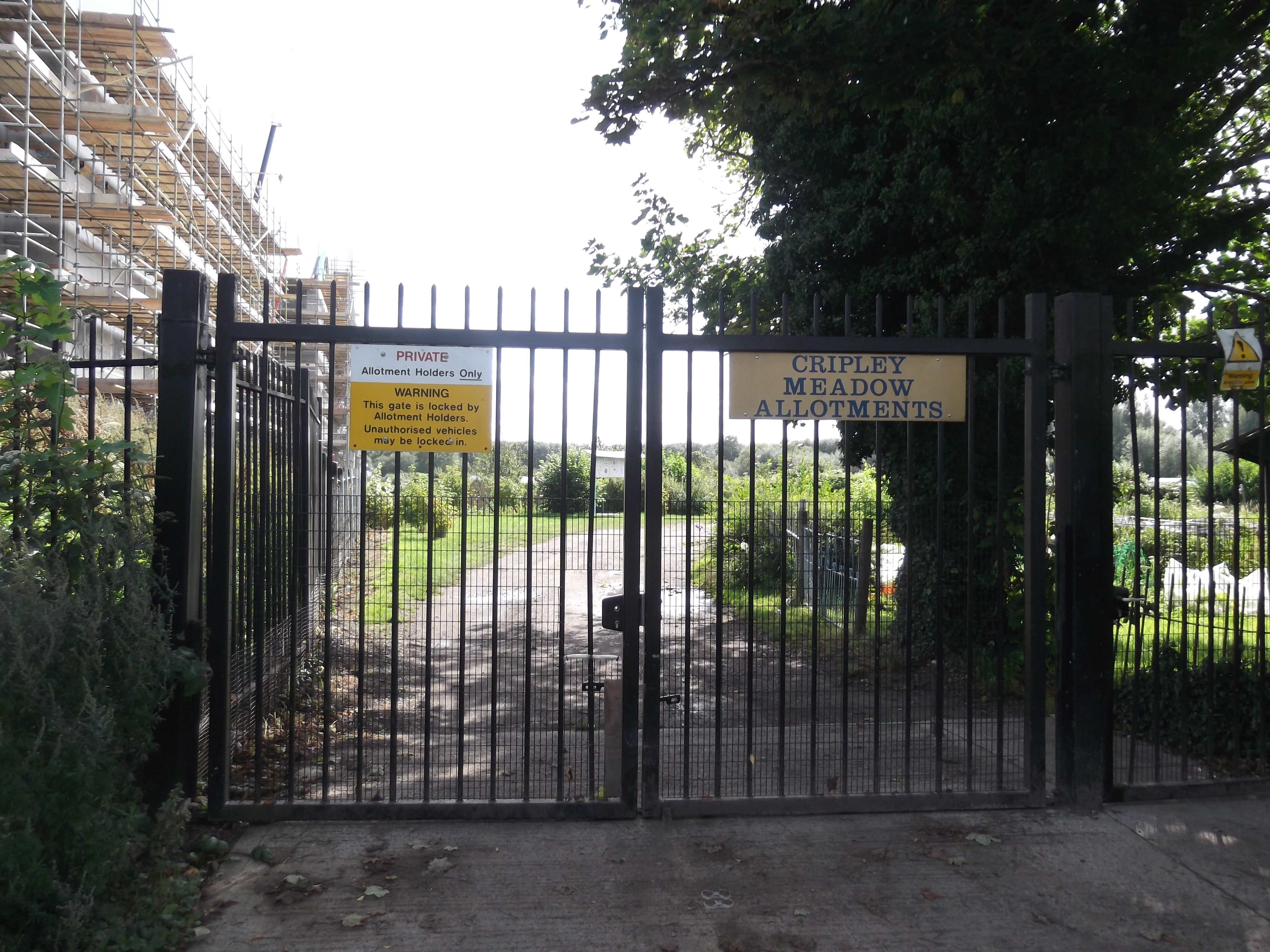 Gates to the allotments at Cripley Meadow, close to the south end of Port Meadow, Oxford, England.